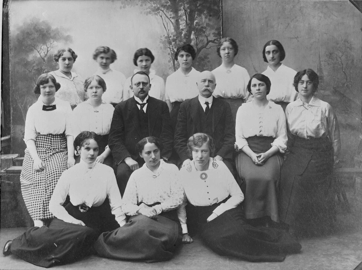 Office personell and two CEOs of Storm, Bull & Co of Oslo, Norway (later Stormbull) in 1914.